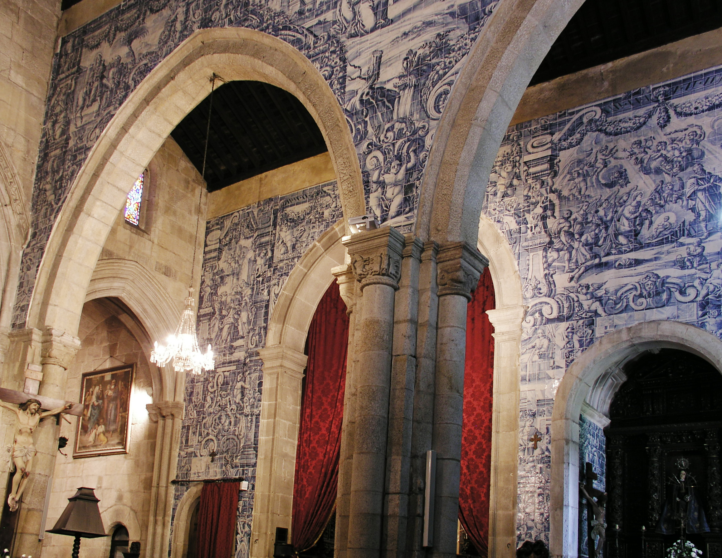 Principal church in Barcelos, Portugal.